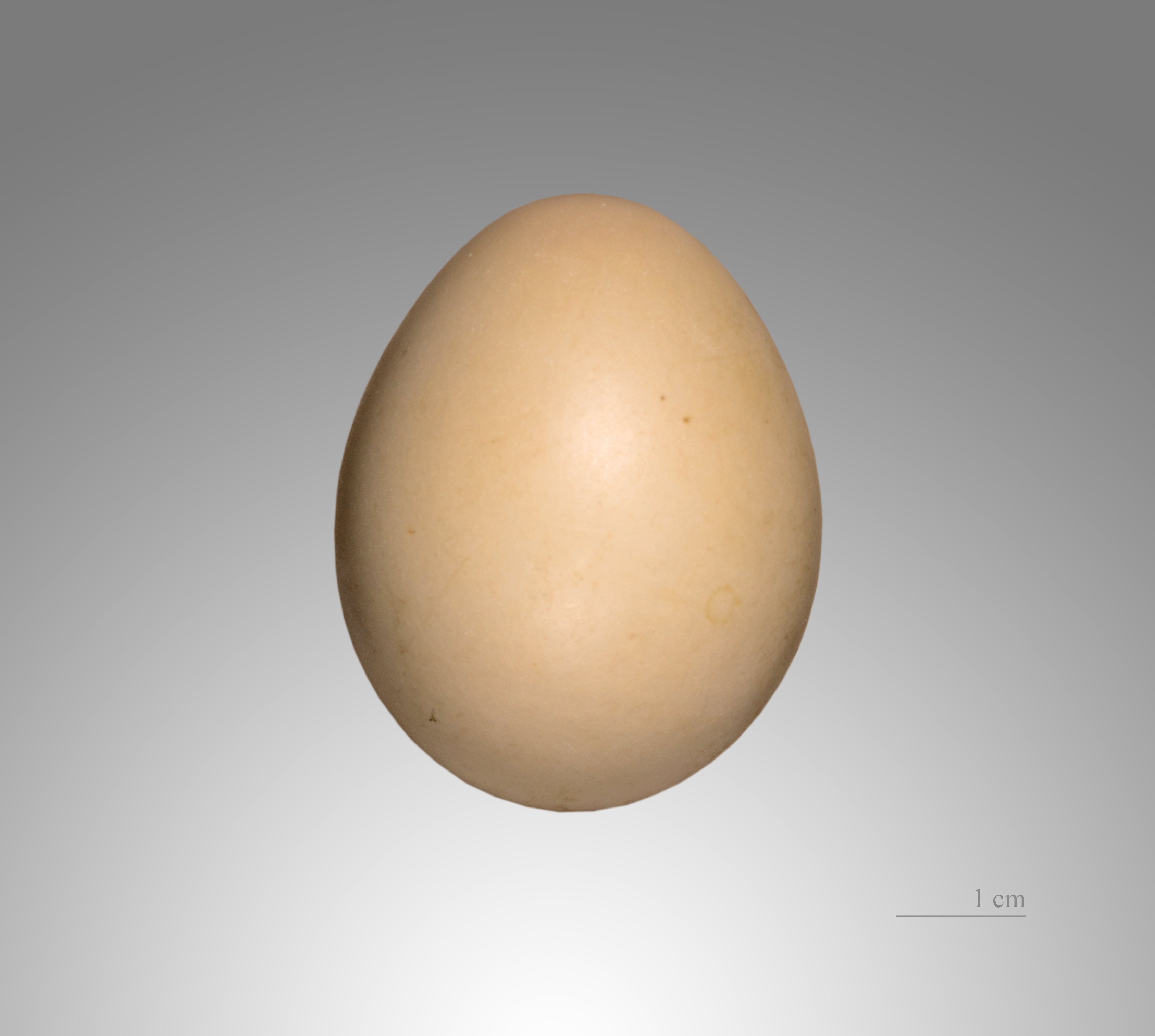 Egg of Golden Pheasant. Collection of Jacques Perrin de Brichambaut.